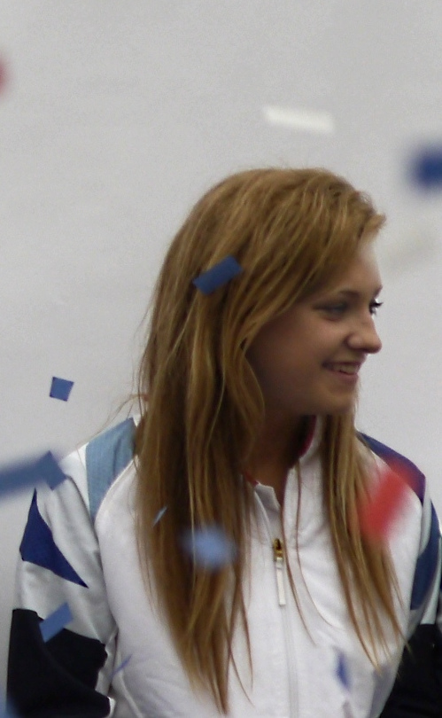 Liz Armitstead (road cycling silver medallist), Sarah Barrow and Alicia Blagg (Team GB divers) at the civic reception